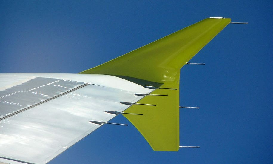 Detailed view of an Airbus A319 'wingtip fence' with several static wicks visible. Photo taken on a flight from Barcelona to Stuttgart.